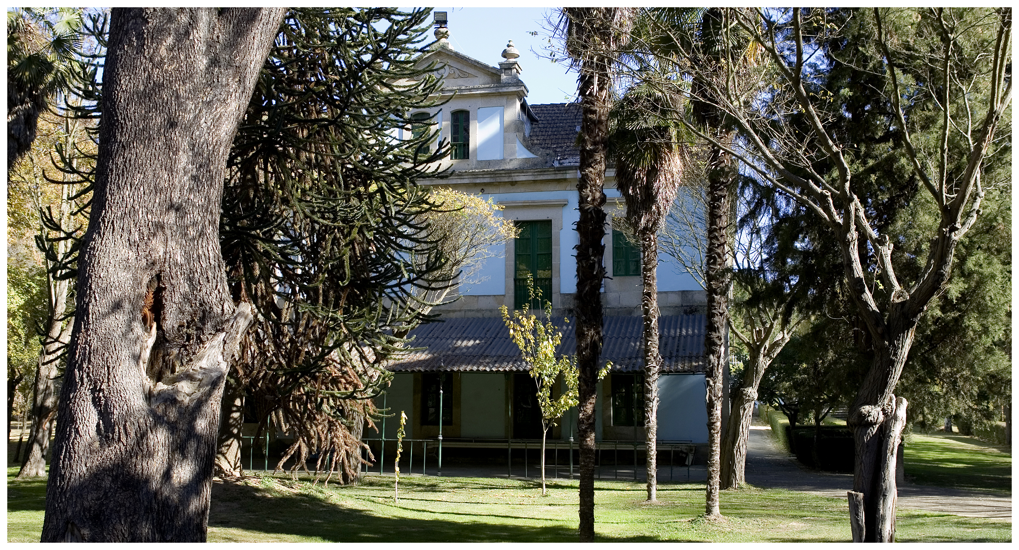 Balneario de Cabreiroá